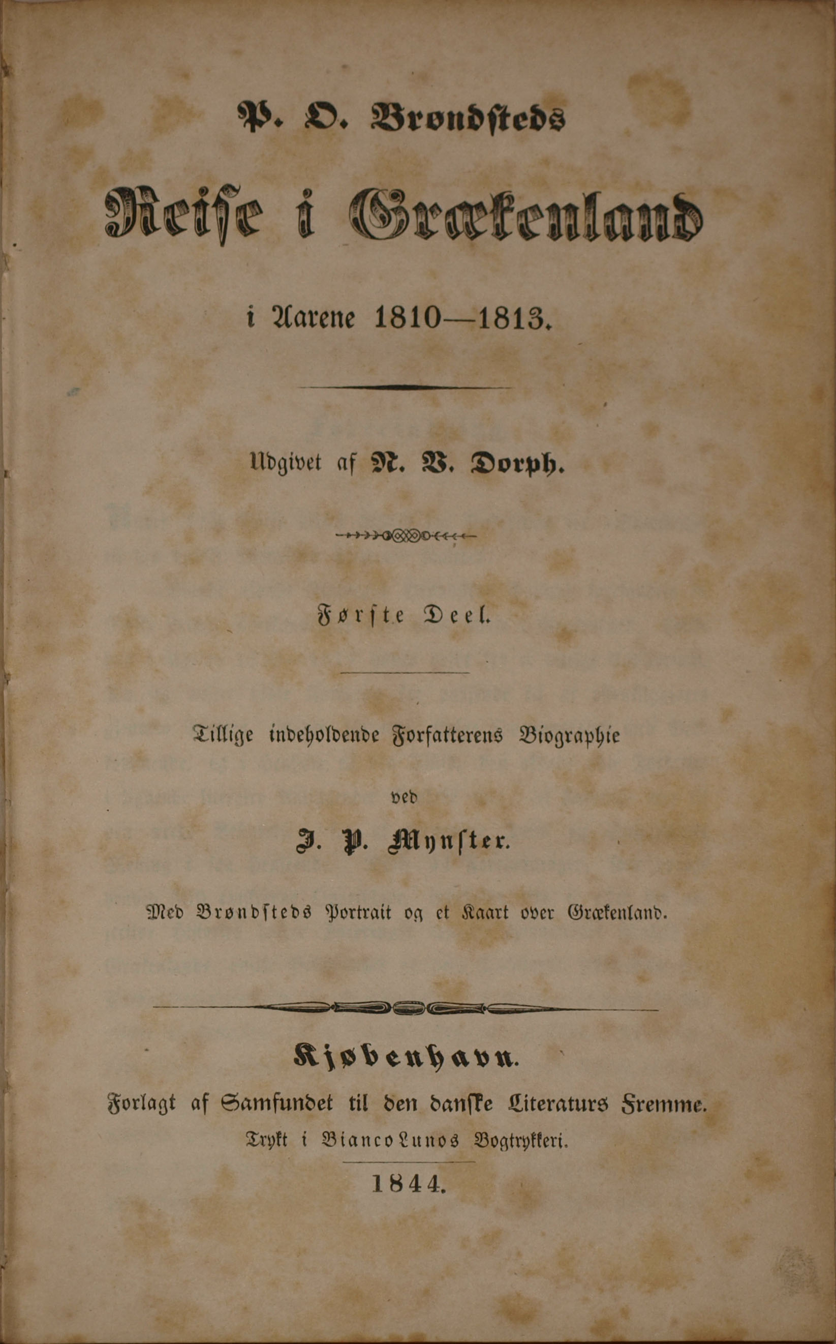 P.O. Brøndsted's: Reise i Grækenland, bind 1, Copenhagen, 1844.